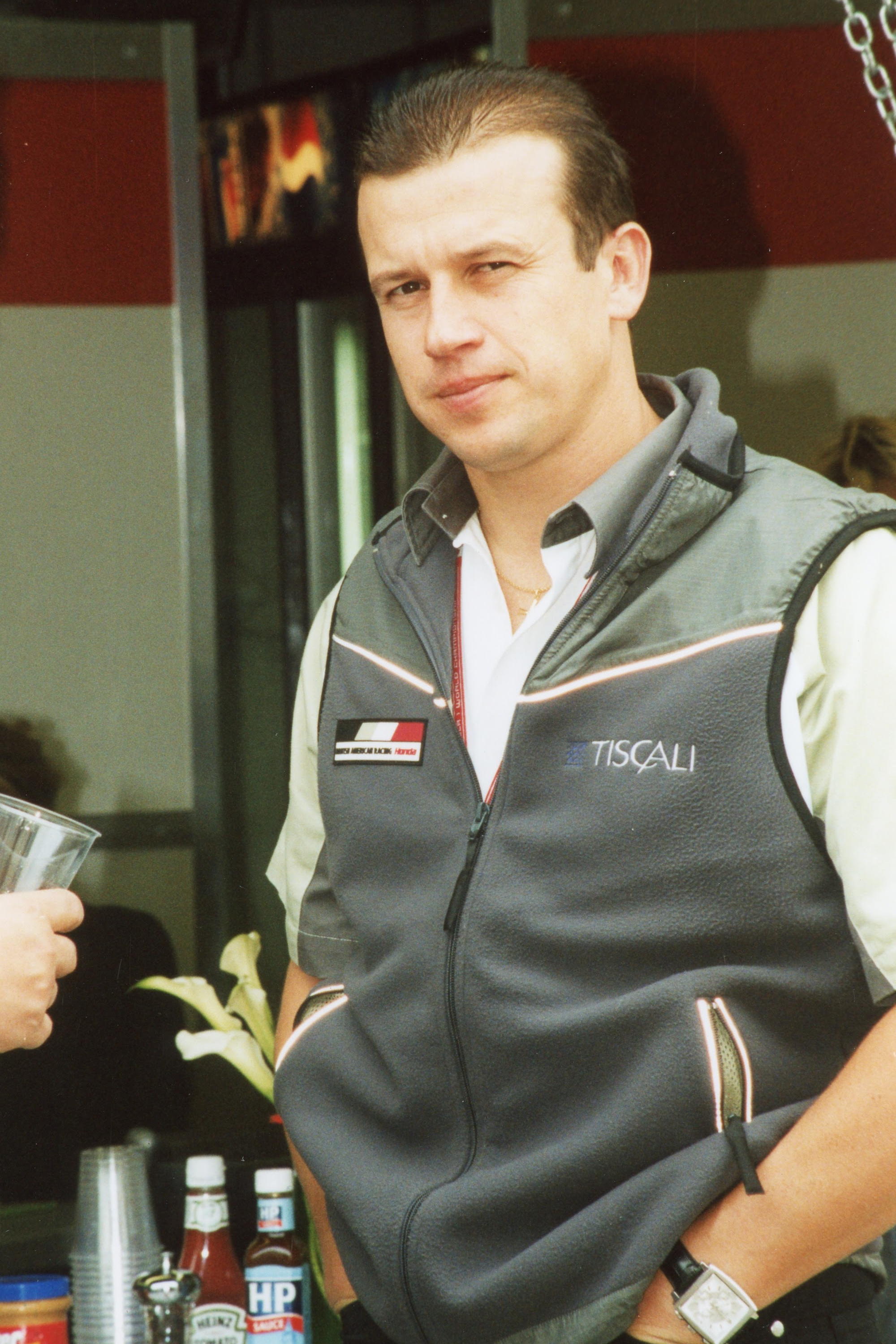 Olivier Panis, Indianapolis, 2002